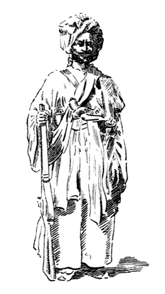 A Khyberi of Queen's Own Corps of Guides, 1853. Sketch by Maj AC Lovett, ca. 1910. Published in "The Armies of India," 1911.